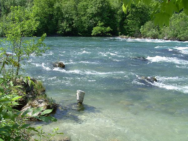 Rapids before the Rhine Falls